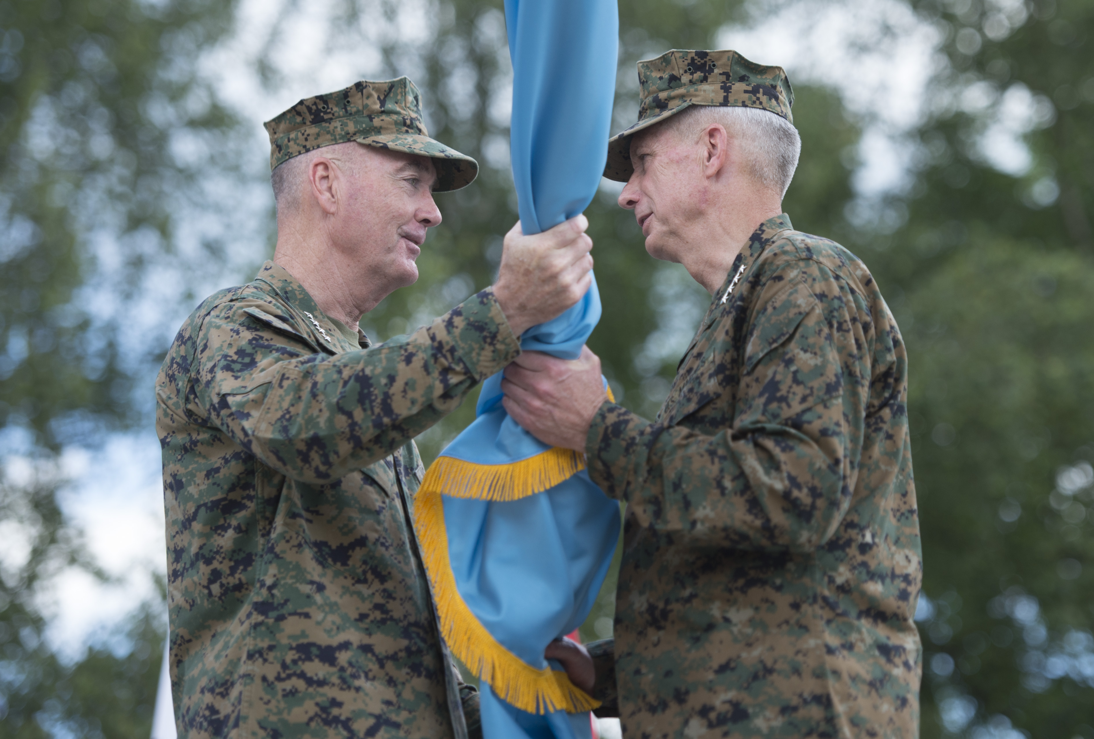 Marine Gen. Joseph F. Dunford Jr., chairman of the Joint Chiefs of Staff, passes the U.S. Africa Command flag to Marine Gen. Thomas D. Waldhauser, incoming commander of U.S. Africa Command, during the U.S. Africa Command change of command ceremony at U.S. Army Garrison Stuttgart, Germany, July 18, 2016. Waldhauser assumed command from Rodriguez, who will retire after 40 years of military service. Waldhauser is the first Marine AFRICOM commander and the fourth commander overall. DoD Photo by Navy Petty Officer 2nd Class Dominique A. Pineiro